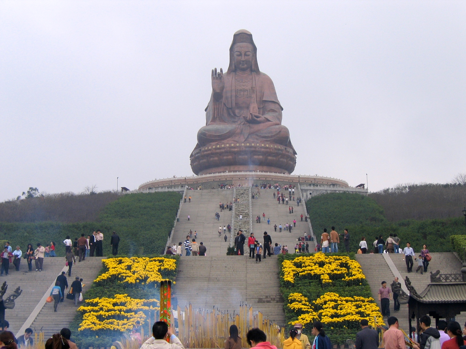 Statue of Kuan Yin on Xiqiao Mountain, Foshan, Guangdong, China